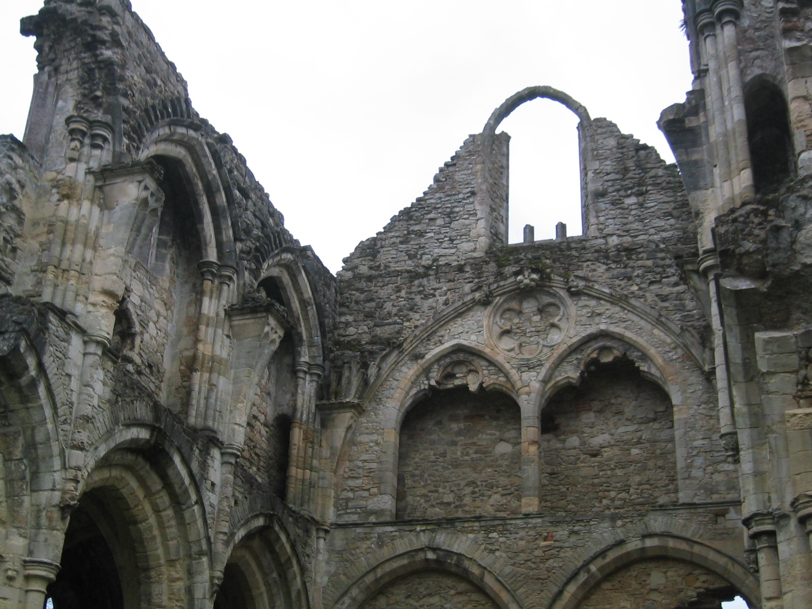 Some of the ruins of Netley Abbey, in Netley, Hampshire, England. Photograph is of part of the transept in the abbey church.